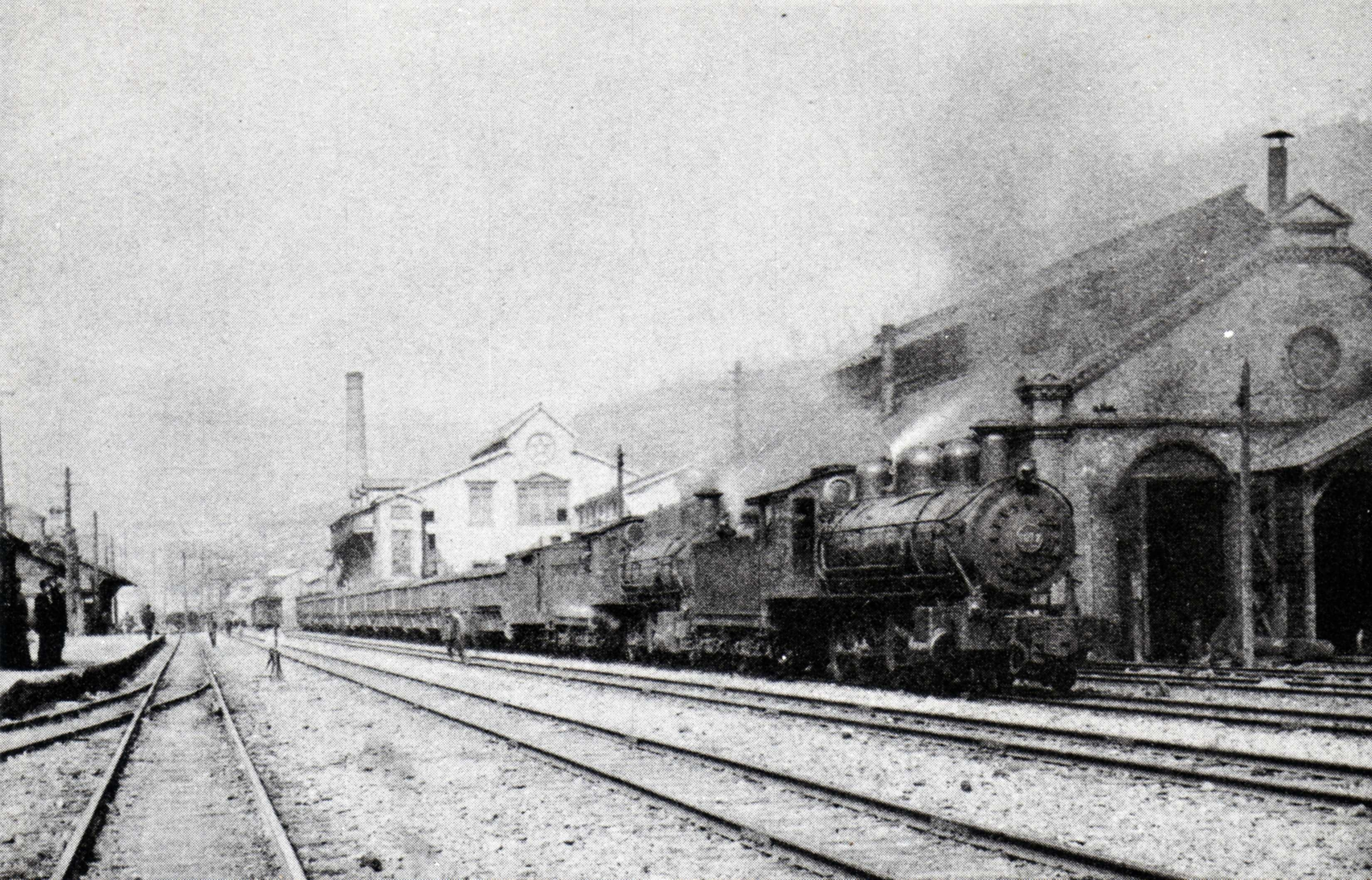 Yūbari Station in the Taisho Era, 1918